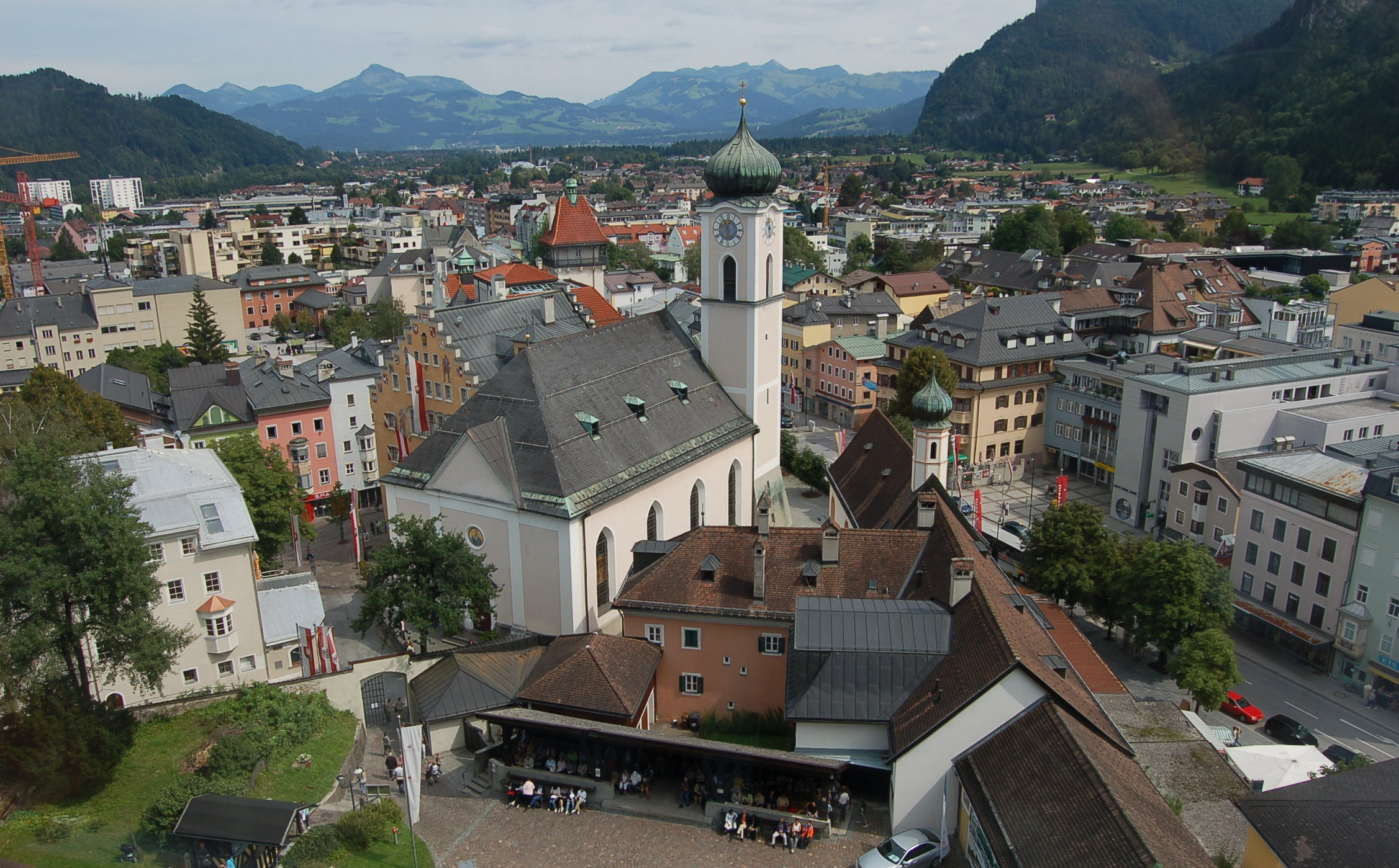 View of Kufstein from Panoramalift (an elevator leading up to the castle)